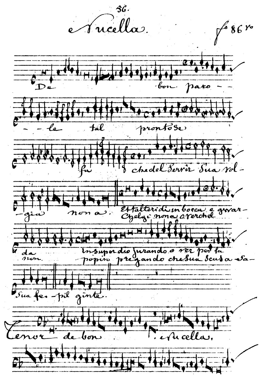 Edmond de Coussemaker's transcription of Nicolaus Ricii de Nucella Campli's ballata "De bon parole".